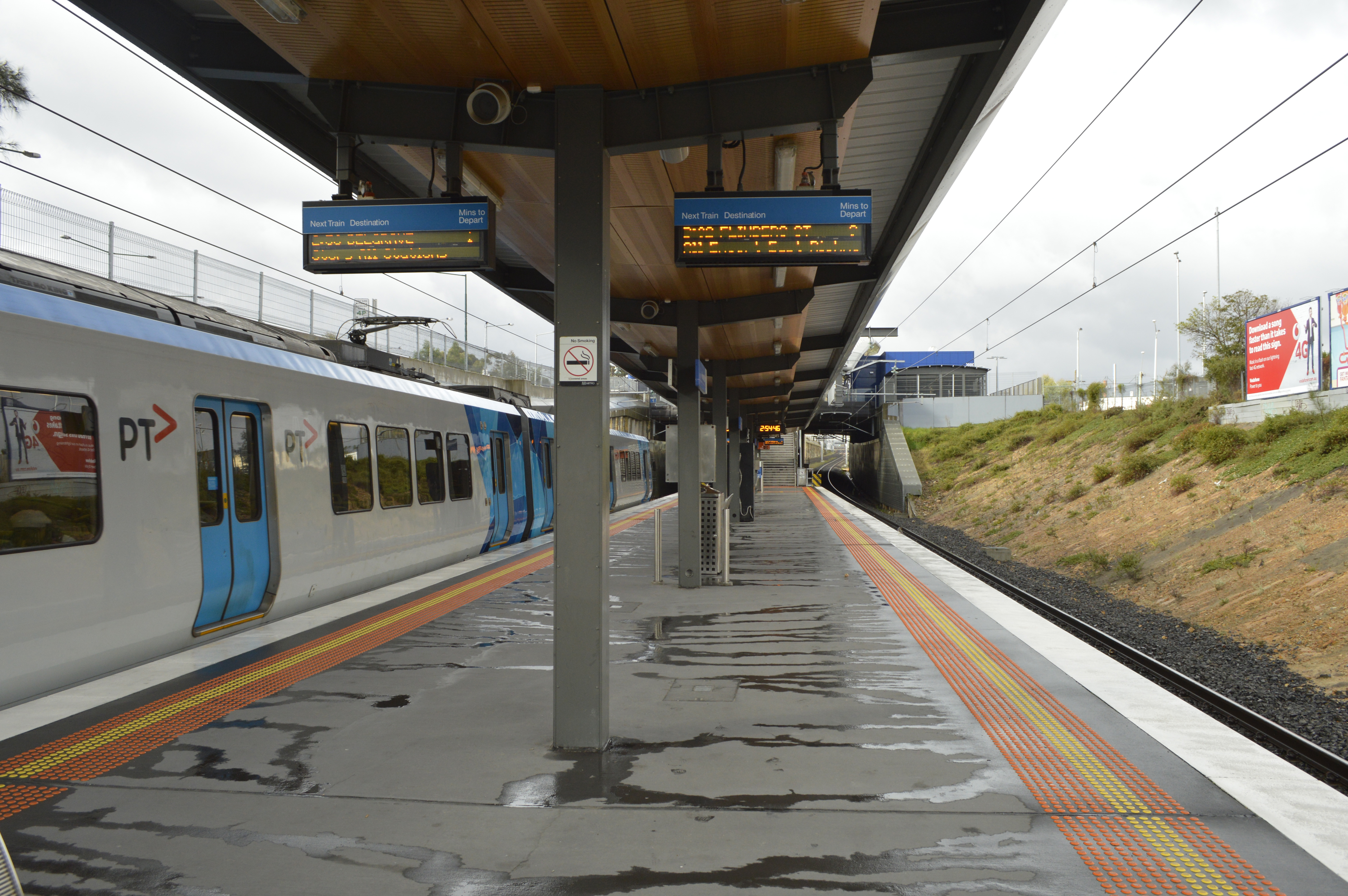 Looking east.